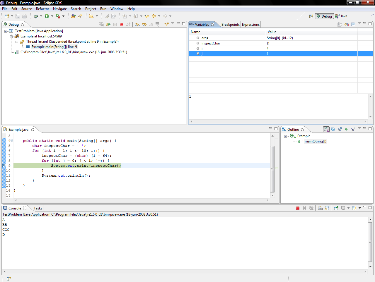 Screenshot of debugging in Eclipse: the program is suspended at a breakpoint